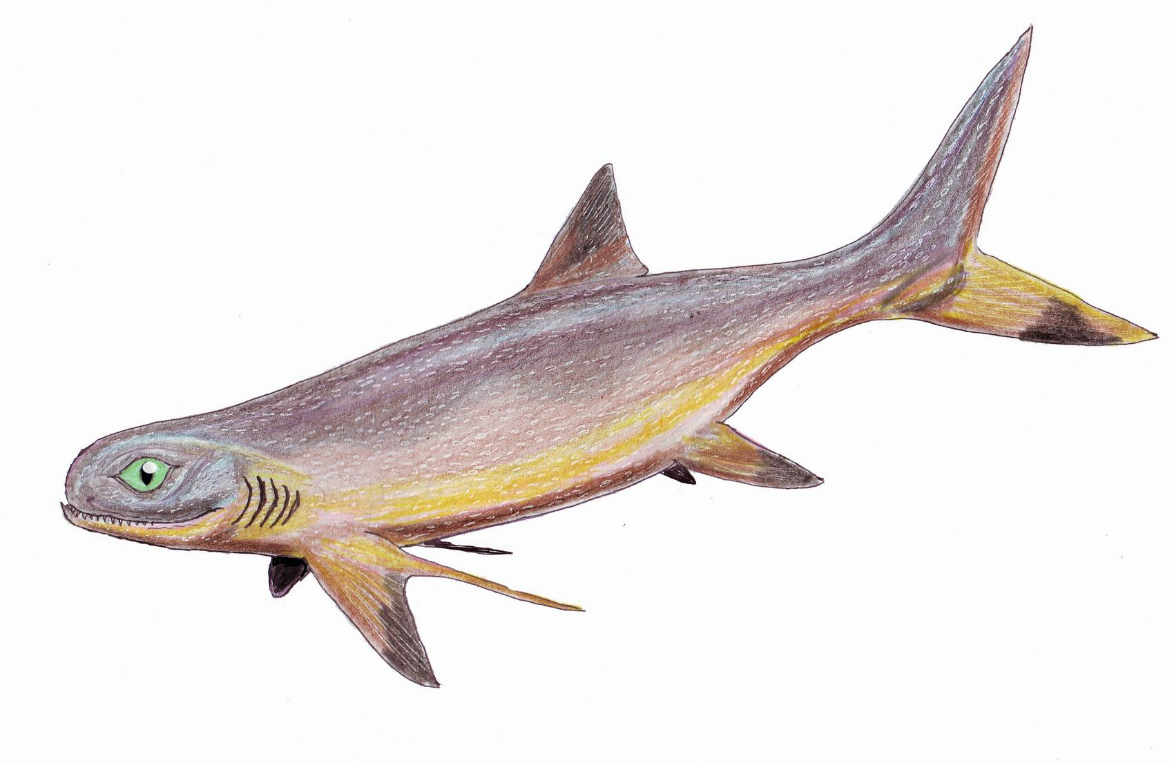 Symmorium